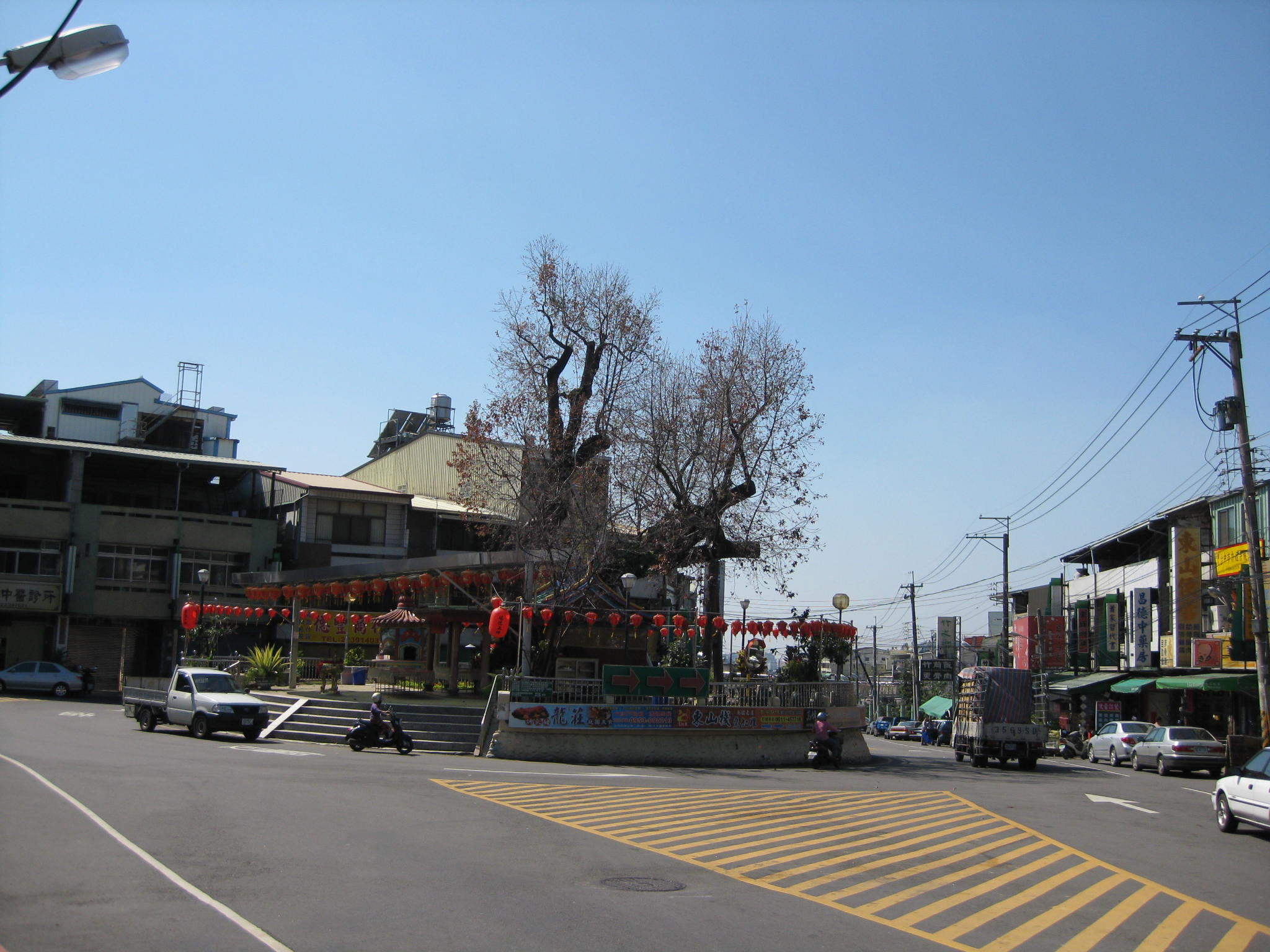 Dakeng Roundabout at the intersection of Dongshan Rd. and Hengkeng Ln. in Dakeng,Taichung City.